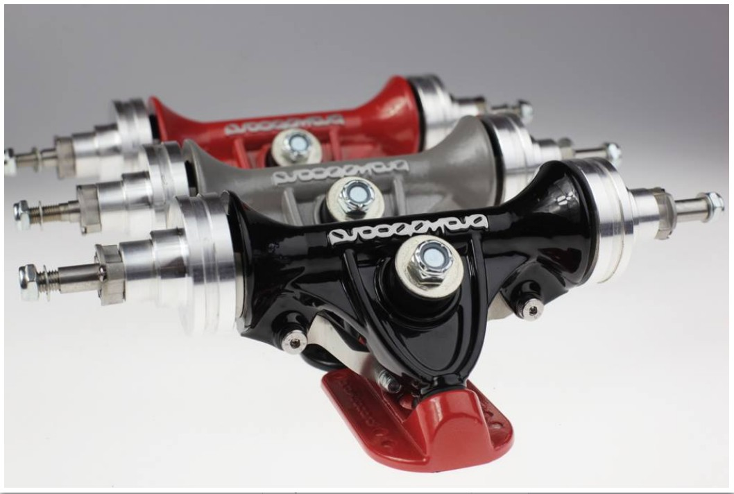 Brakeboard_color_range_2014-15